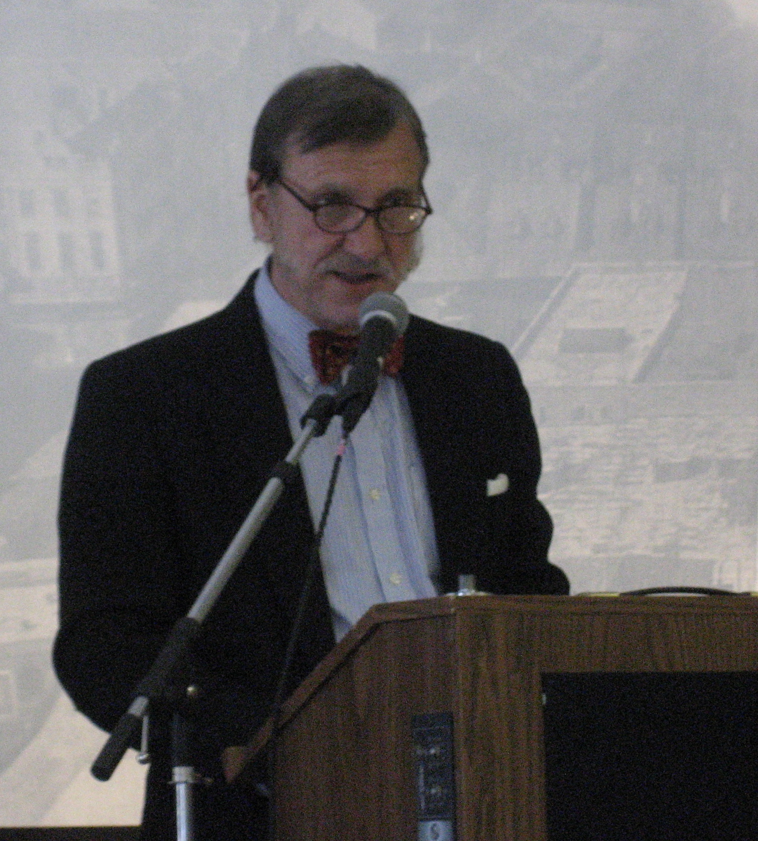 Dr. Jack Stewart gives a music history lecture at the Satchmo Summer Fest, New Orleans